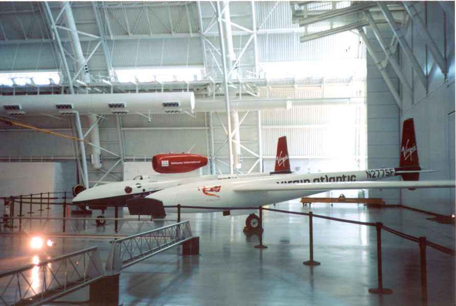 Photo of Virgin Atlantic Global Flyer taken at Udvar-Hazy Center in Washington, D.C. in 2006.